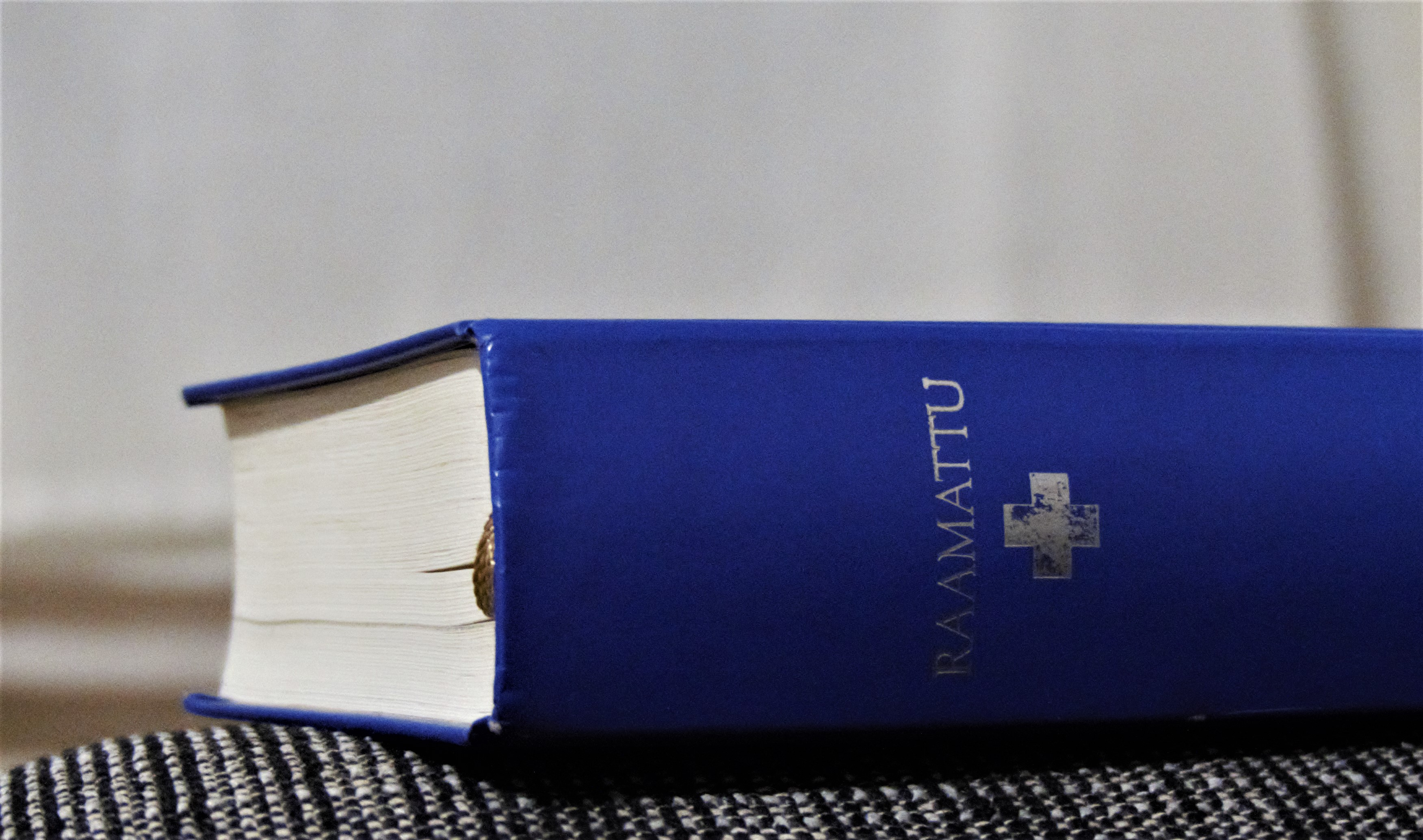 A bible with 1992 Finnish translation.